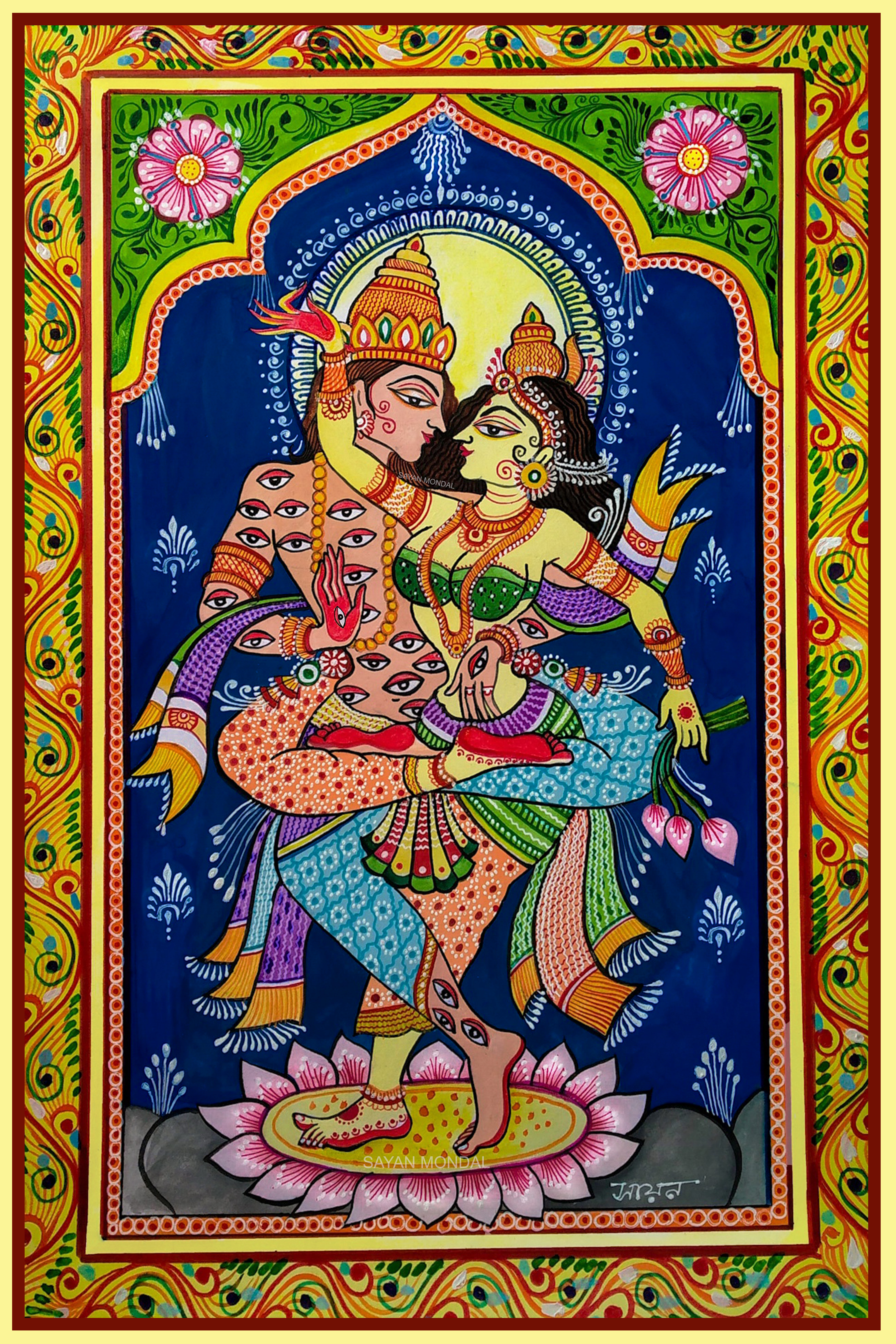 Ahalya is the eternal woman who responds to her inner urges and the advances of the divine ruler ( Devraj Indra)- a direct contrast to her ascetic husband (Rishi Gautama), who did not satisfy her carnal desires. She as an independent woman, makes her own decisions, takes risks and is driven by curiosity to experiment with the extraordinary and then accept the curse imposed on her by a patriarchal society. It is this undaunted acceptance of the curse that makes The Ramayana praise and venerate her. Ahalya is often described as an ayonijasambhava, one not born of a woman. Brahma crafted her out of pure creativity from water and named her Ahalya meaning "one without the reprehension of ugliness”. Rishi Gautama took care of her until she reaches puberty and returned Ahalya to Brahma. Pleased with Gautama's sexual restraint and asceticism, Brahma bestowed her upon him as his wife. Indra (devaraja) became enamoured by Ahalya's beauty, decided to attain the woman of his heart by subterfuge. Indra convinced the Moon to take the form of a rooster and wake up Gautama much before dawn. He took the advantage of Rishi’s absence and approached Ahalya in guise of Gautama to make love to him. Ahalya with her spiritual power recognised the impersonator but enjoyed dalliance with him out of curiosity. In the meantime, the sage returned, realised all that had transpired. Outraged, he cursed Indra to be covered with thousand of female genitals, Ahalya to become a stone and Moon to carry the kalanka (black spots). Centuries later, Ahalya was redeemed by touch of Rama and the marks of vaginas over Indra’s body were transformed into eyes by grace of Shiva, making him ‘Thousand-eyed-lord’. Medium : watercolor, acrylic paint, sakura white gelly pen, luxor's sketch pen Time taken: 20 hrs Form: pattachitra Information source: Wikipedia